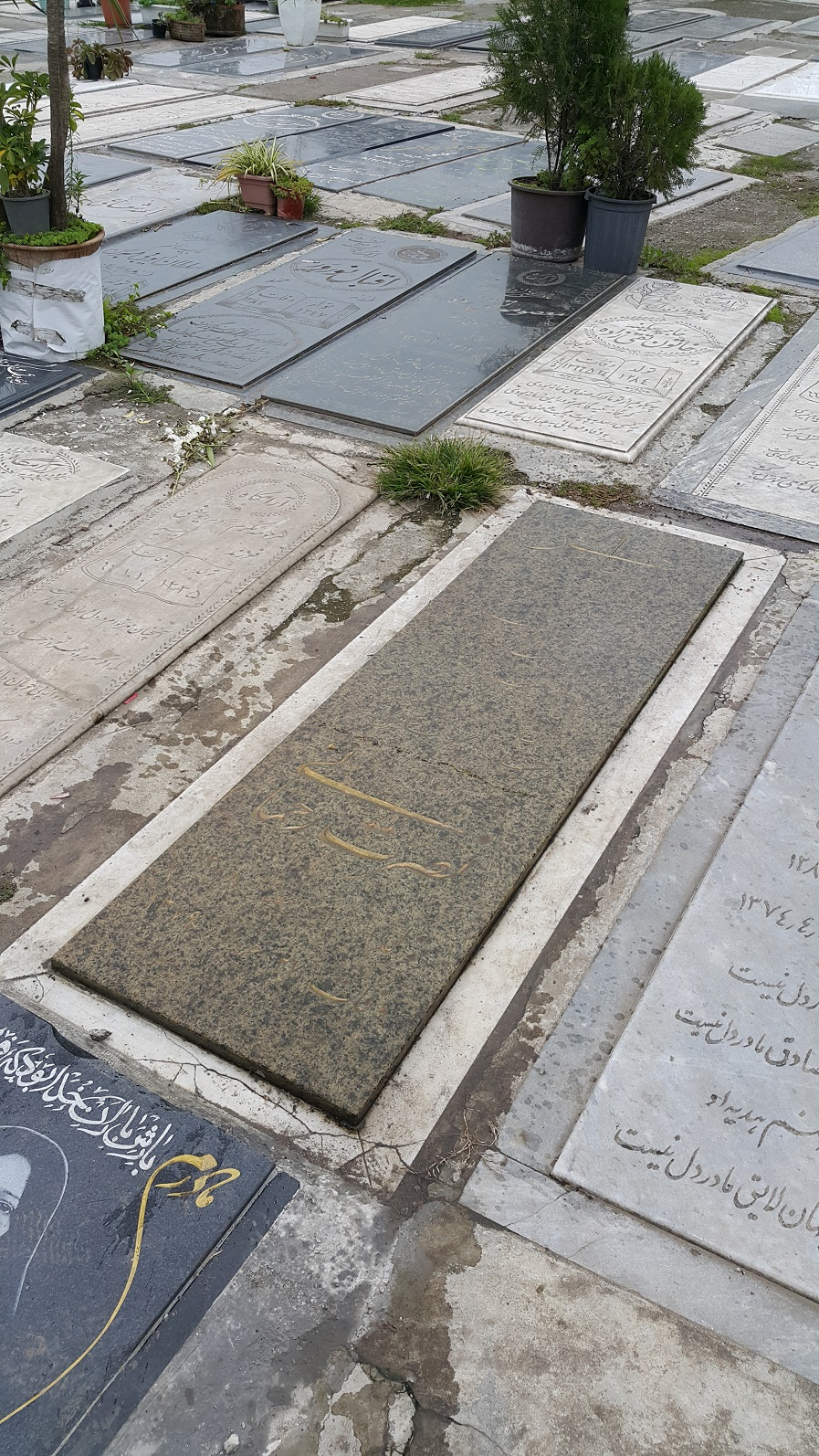 Soleiman Darab